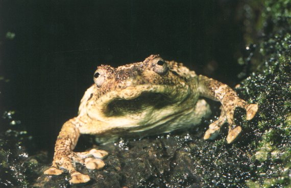 Platypelis grandis